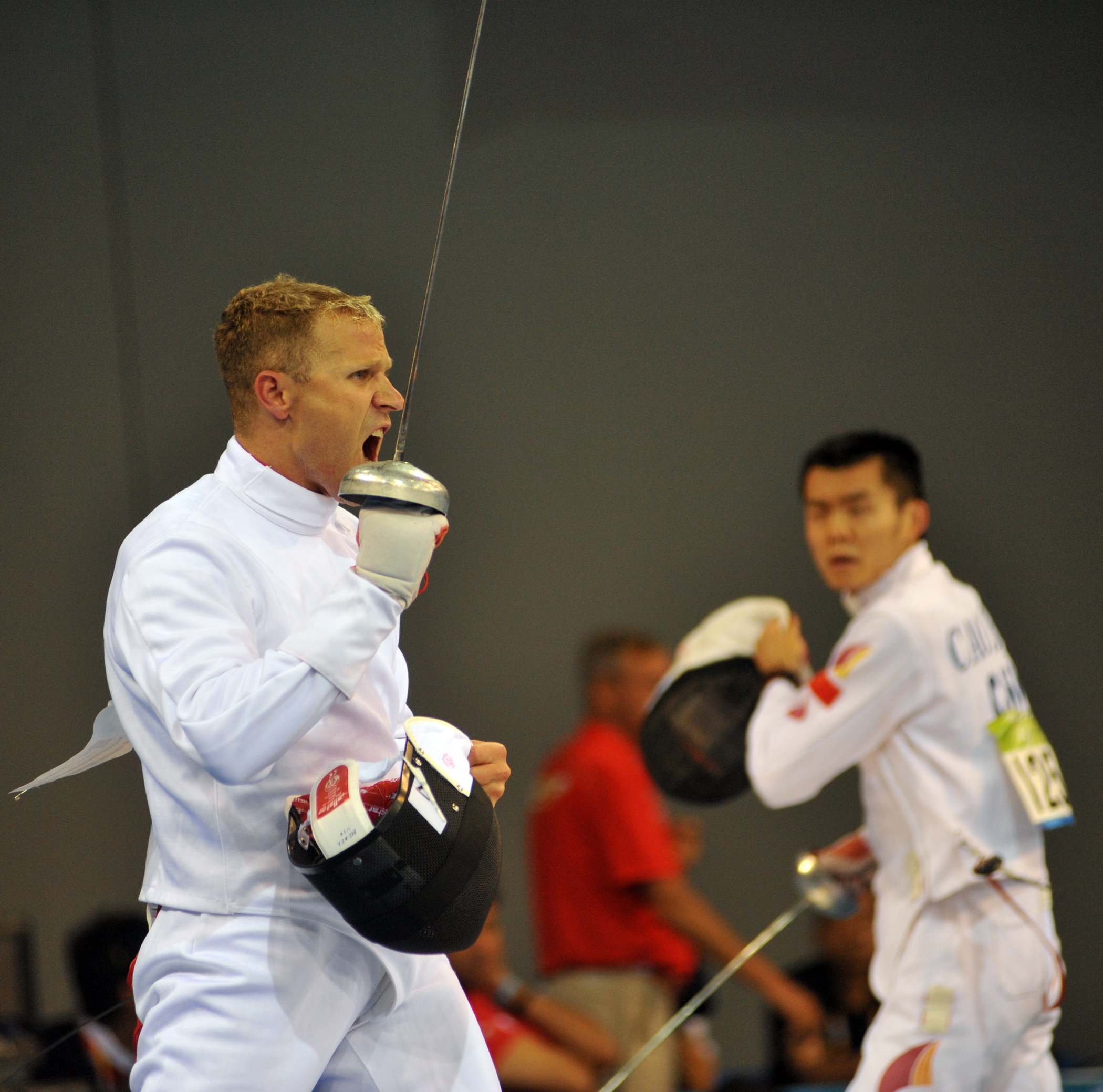 U.S. Air Force Capt. Eli Bremer, left, celebrates his victory over China's Zhon Rong Cao in the epee one-touch fencing portion of the men's modern pentathlon during the Beijing 2008 Olympic Games in Beijing, China, Aug. 21, 2008. Bremer had 14 victories and 21 defeats worth 736 modern pentathlon points to finish in a four-way tie for 29th place in fencing. He eventually finished 23rd with a modern pentathlon total of 5,204 points in the event that consists of pistol shooting, fencing, swimming, equestrian show jumping and running.